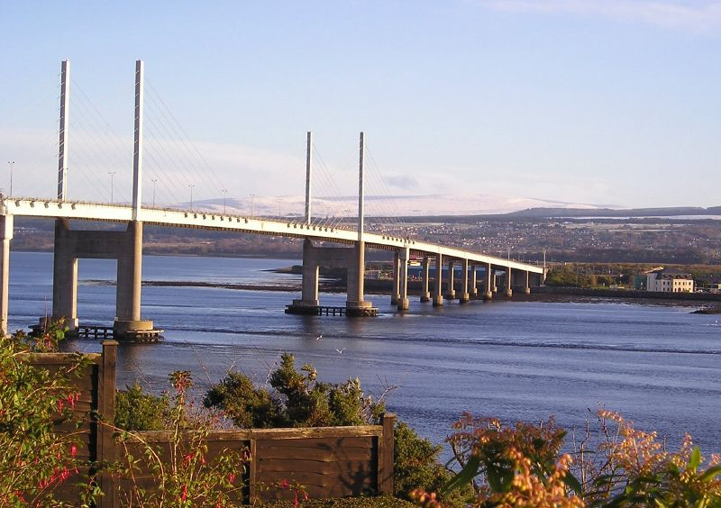 kessock bridge and the Moray firth